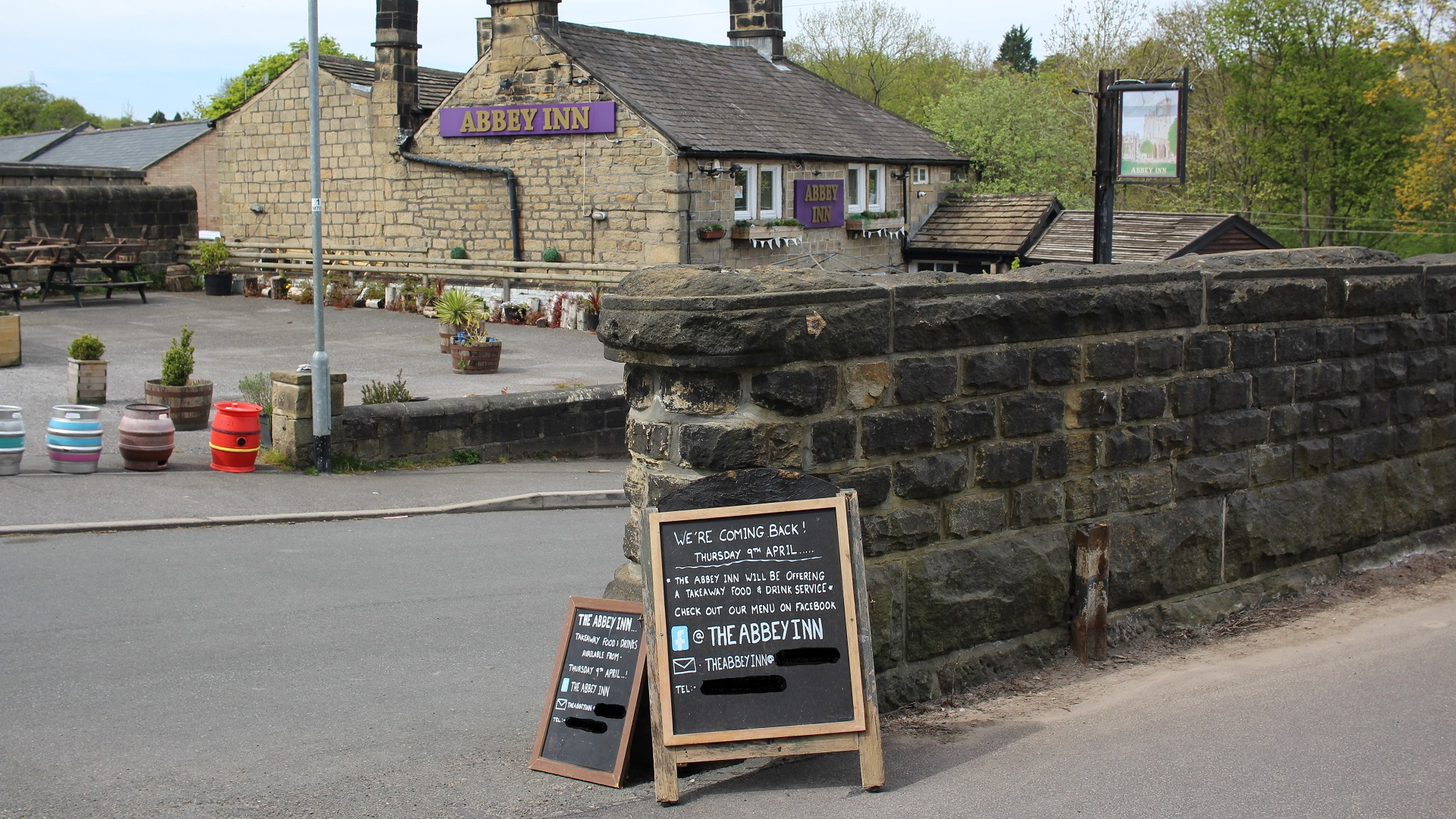 A picture of a public house in Leeds offering a takeaway service during the 2019-20 coronavirus pandemic.